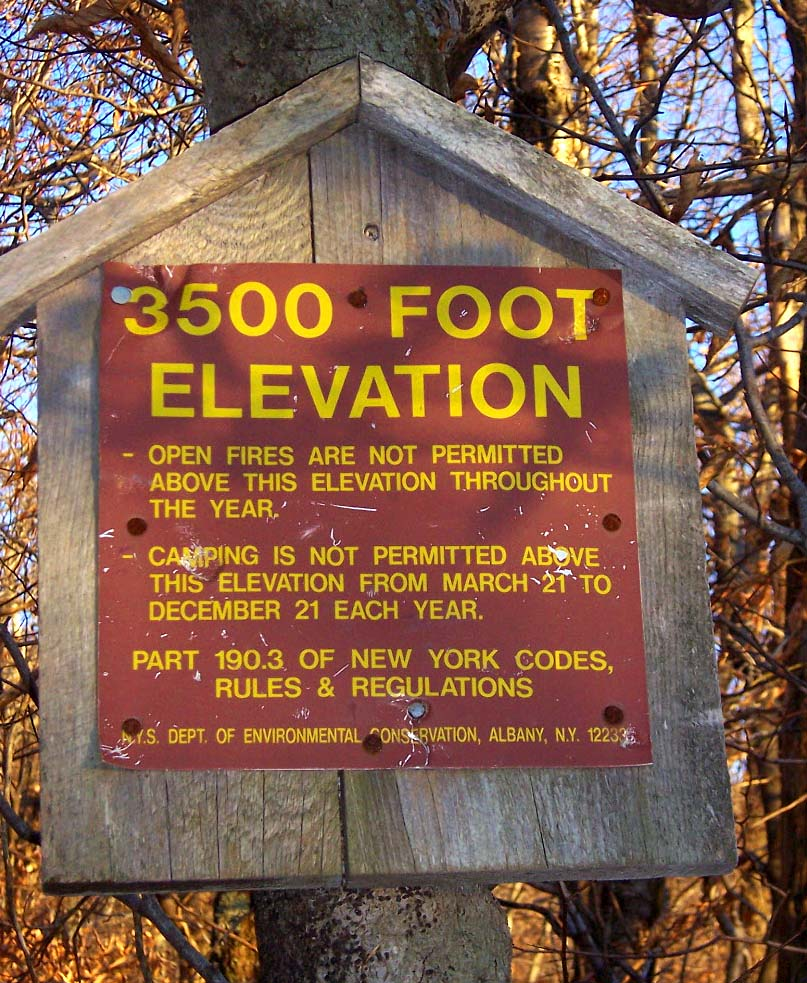 Photographed by Daniel Case on the Burroughs Range Trail up Slide Mountain, 2005-11-12 Category:Images of New York